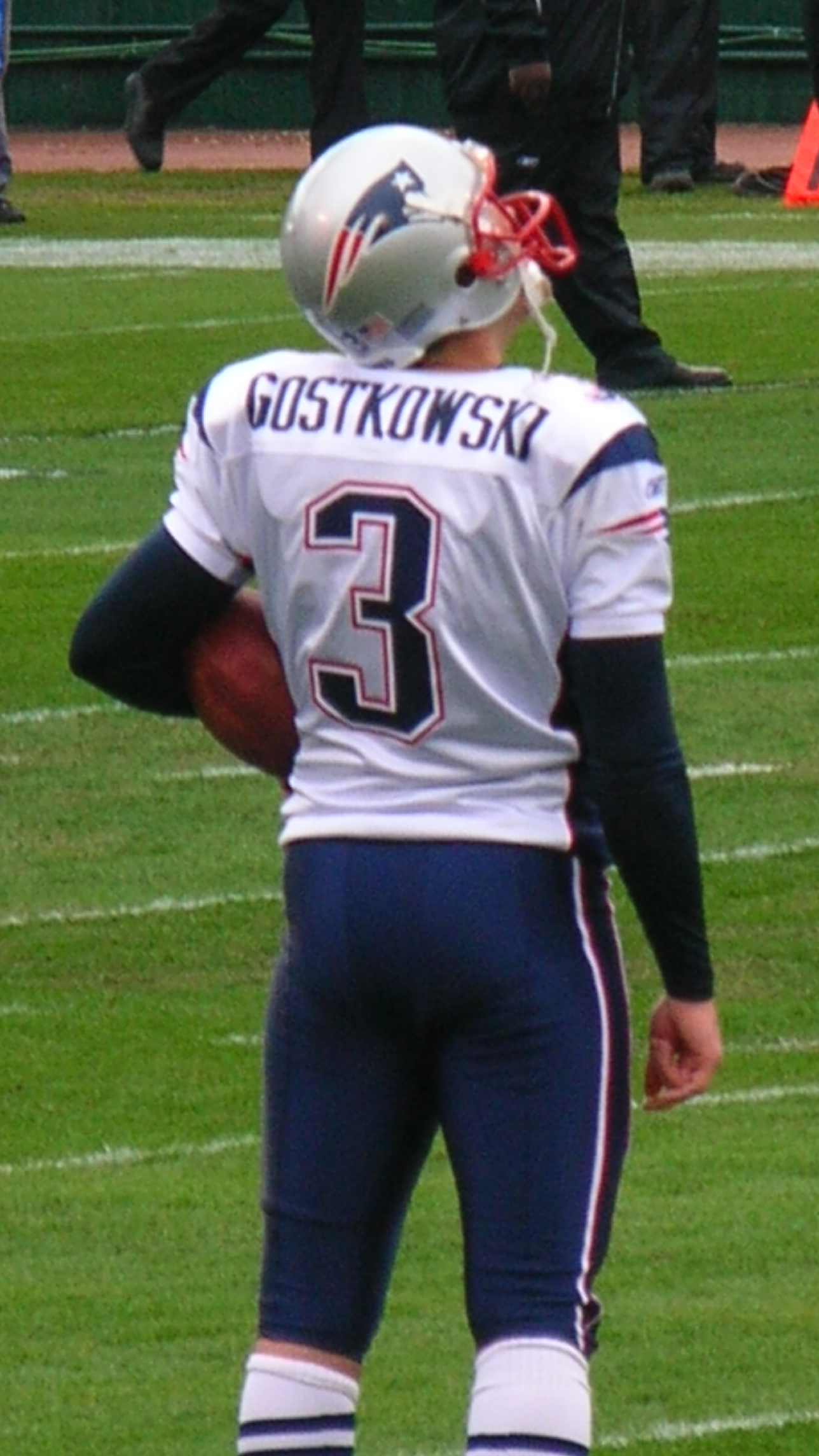 New England Patriots kicker Stephen Gostkowski on the field prior to an away game against the Oakland Raiders. The Patriots won 49-26.